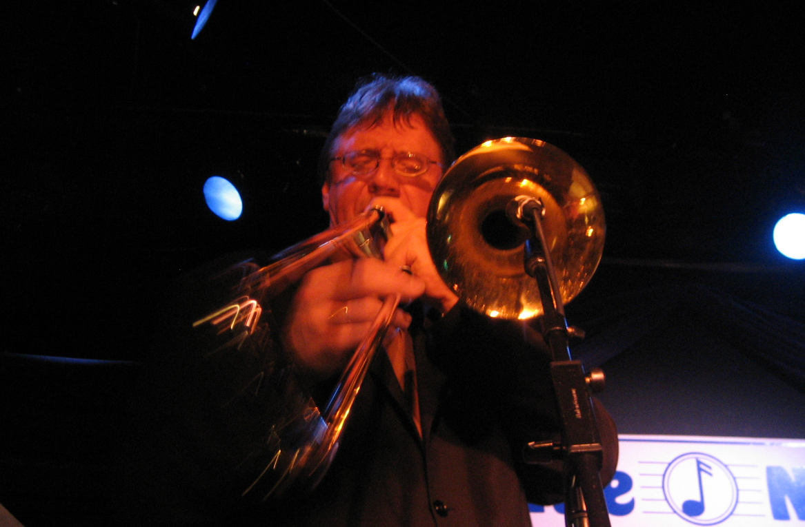 Conrad Herwig @ The Blue Note, The Latin Side of Wayne Shorter